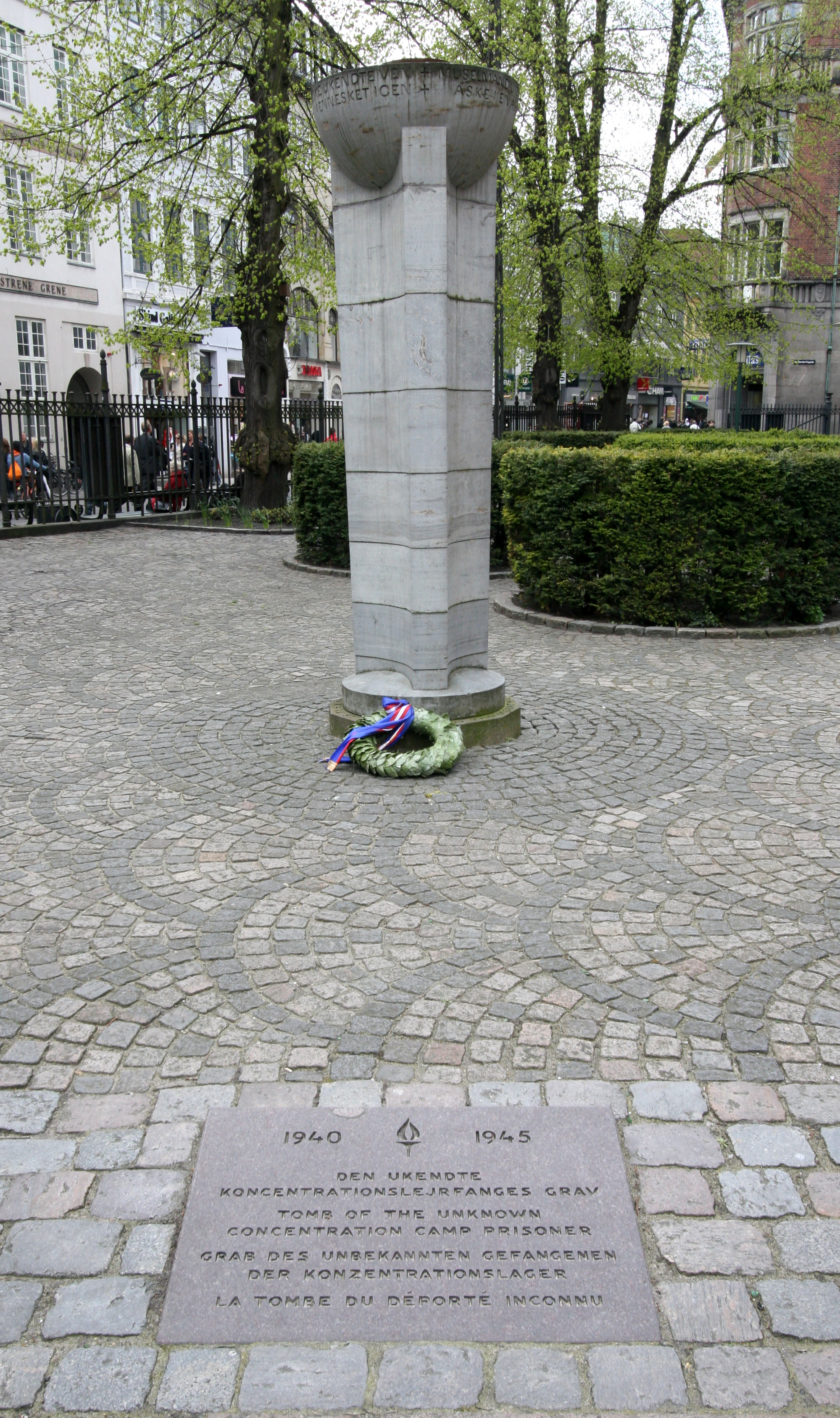 Helligåndskirken, Copenhagen, Denmark. Memorial over the unknown concentration camp prisoner.